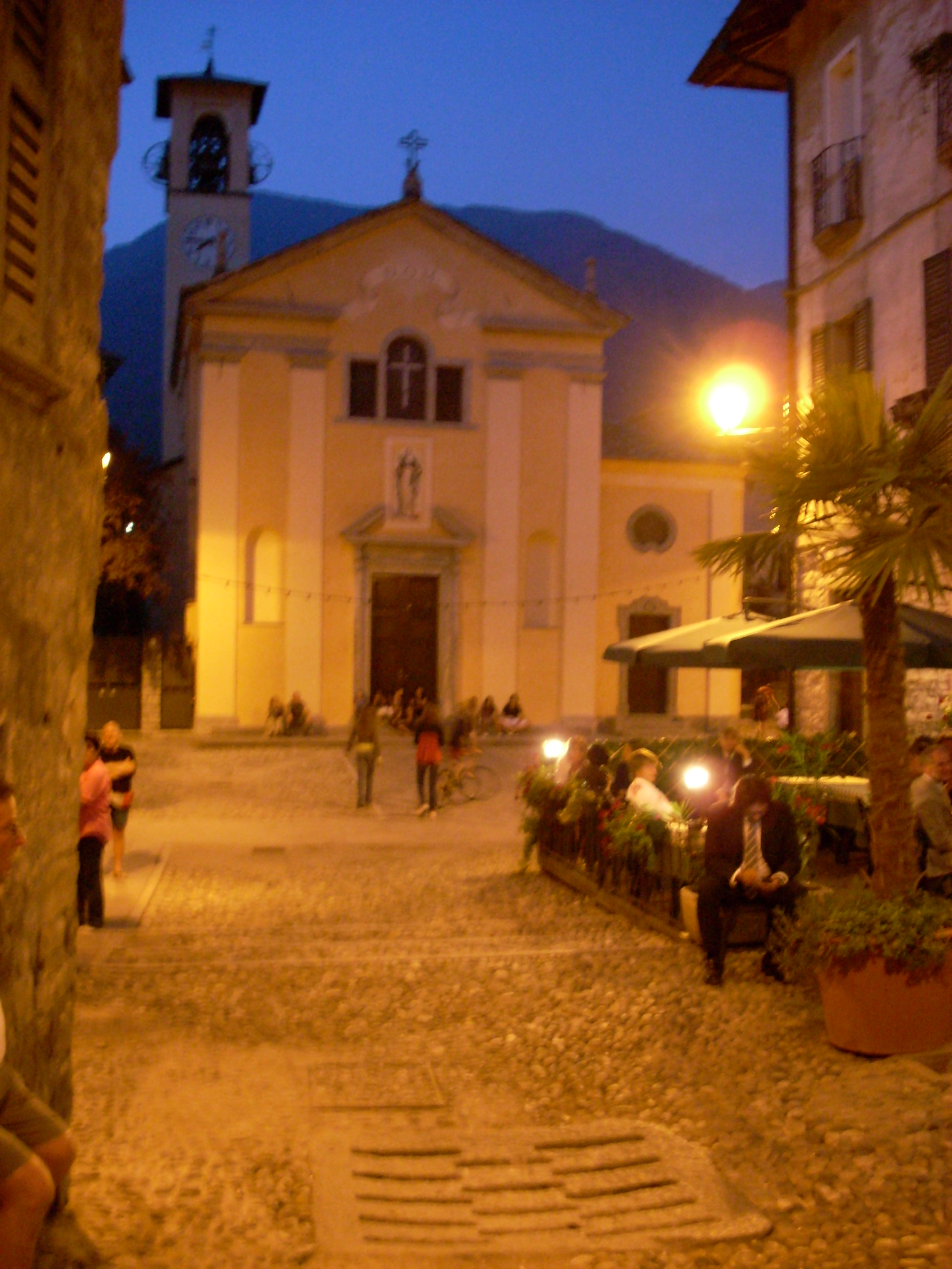 Church of St. Anthony the Great, Molina di Faggeto Lario, Como, Italy